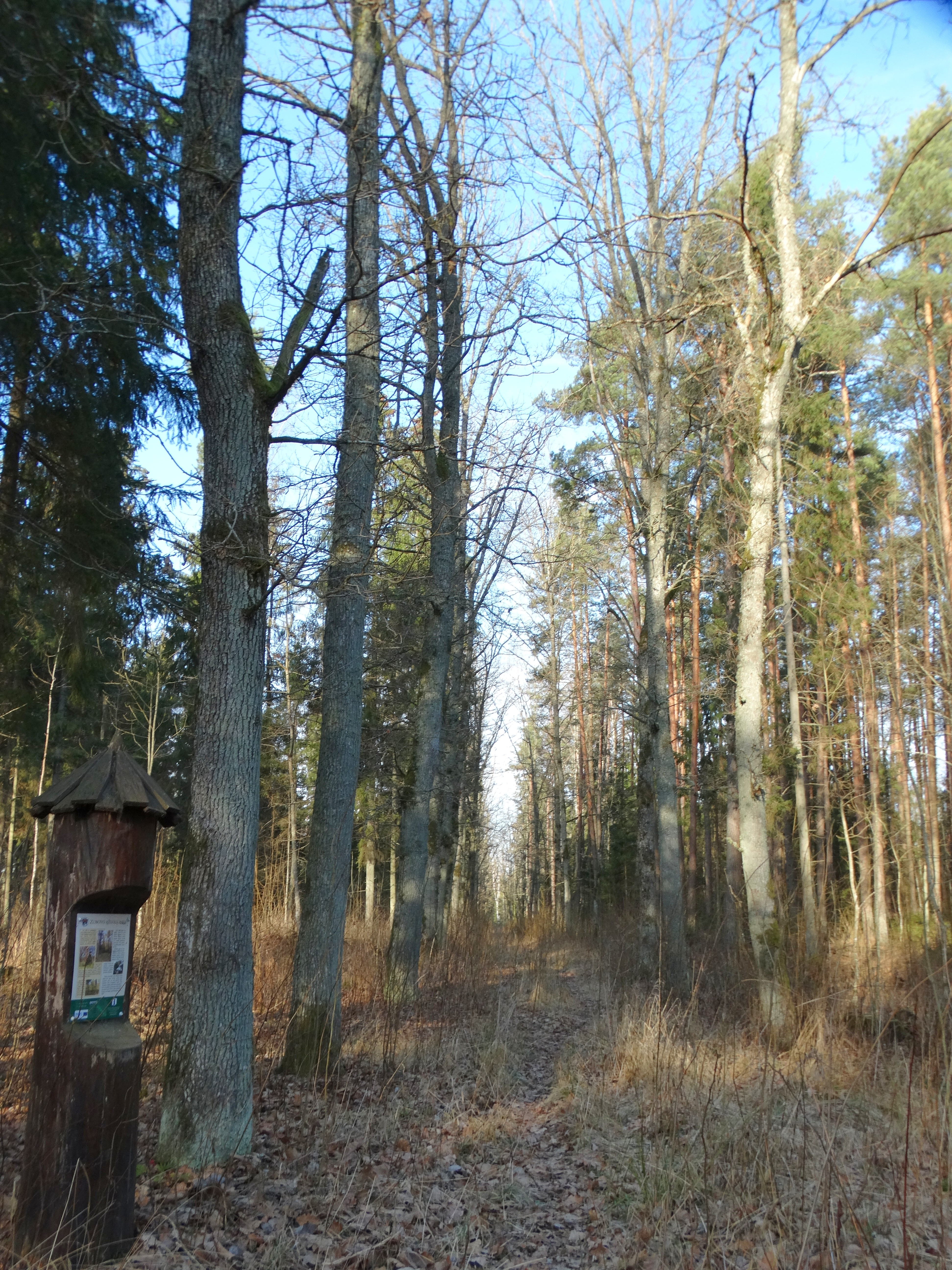 Count D. Zubov's Oak Alley, Šiauliai district, Lithuania